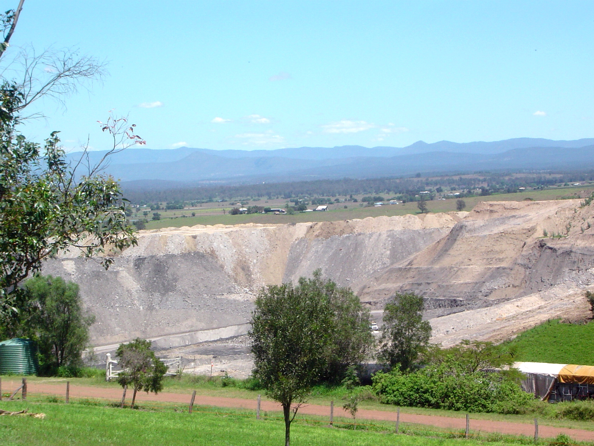 Photo of New New Oakleigh Mine at Rosewood, Queensland